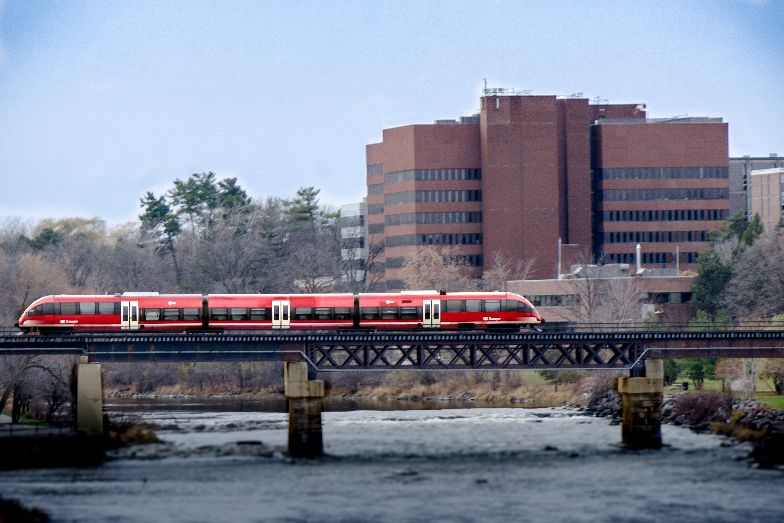 OTrain crossing the Rideau River at Carleton University